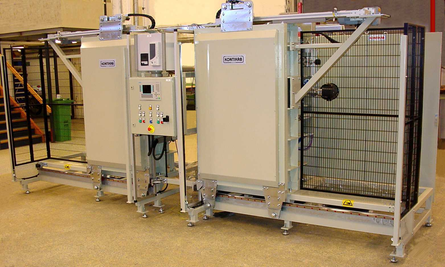 A Helium Leak Detection Machine from KONTIKAB. Dual Chambers.